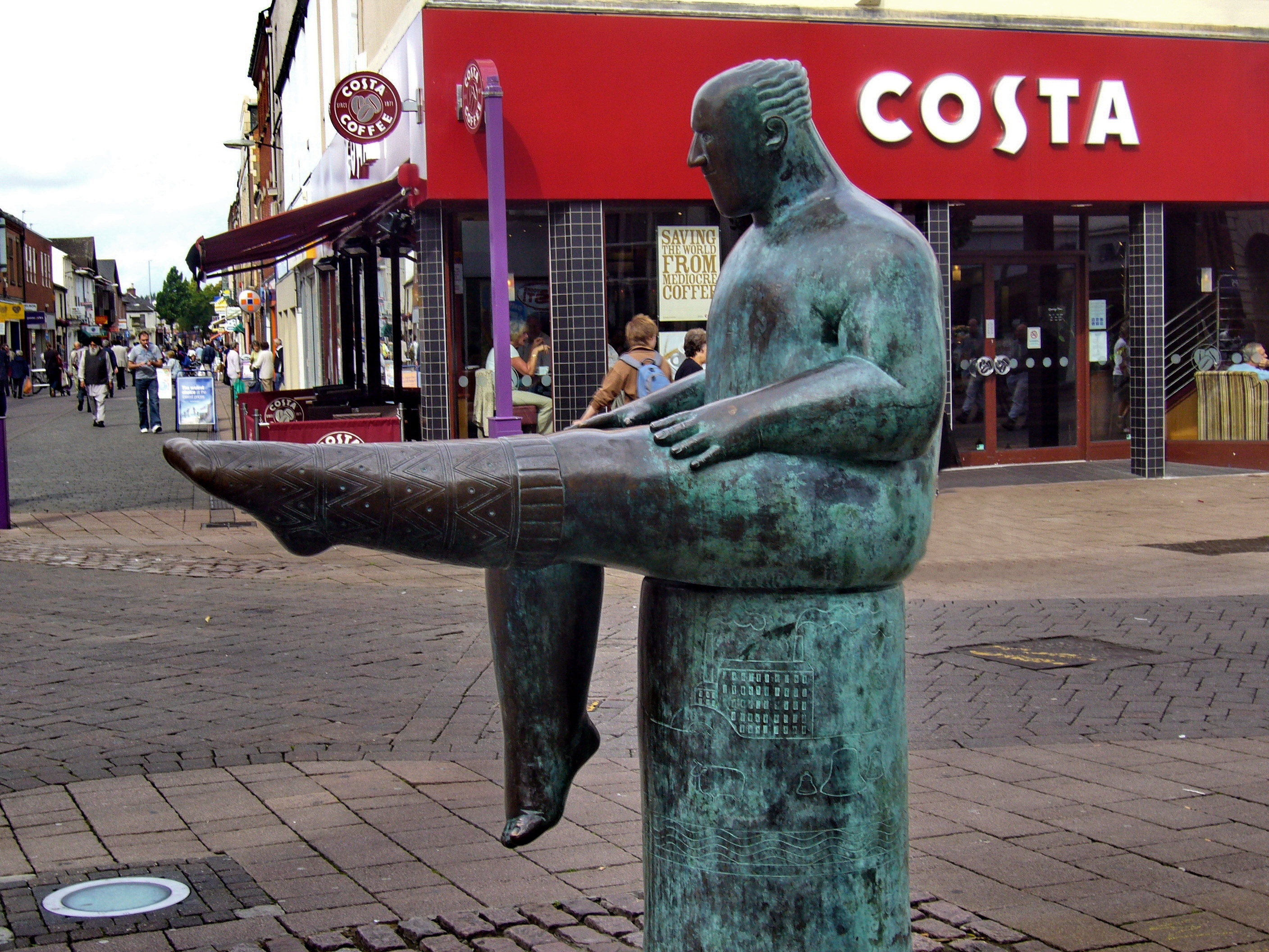 Loughborjugh